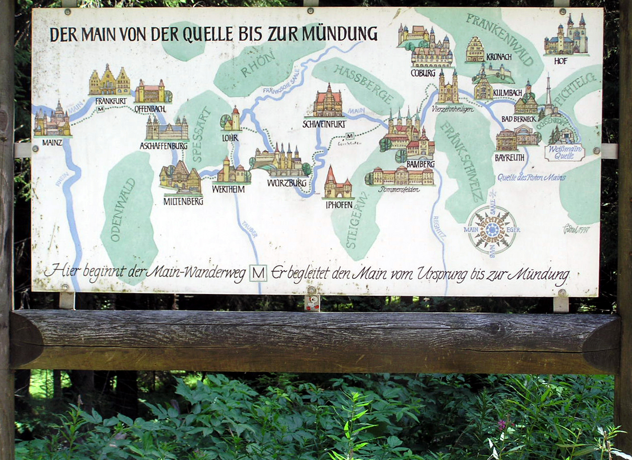 Description: Tafel an der Weißmainquelle Source: Selbst fotografiert Date: 18. August 2005 Author: Schubbay